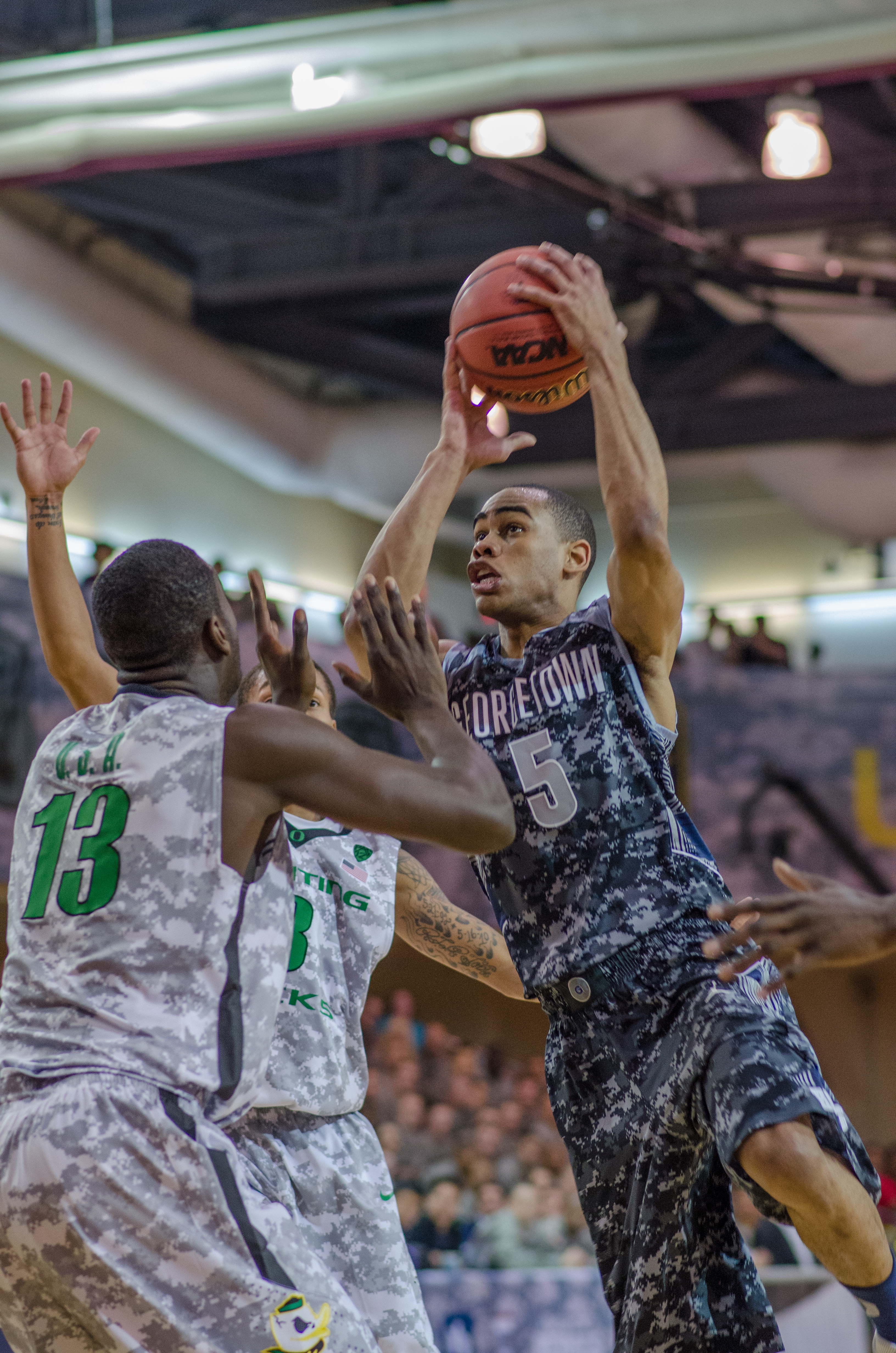 Markel Starks playing for Georgetown in the 2013 Armed Forces Classic.